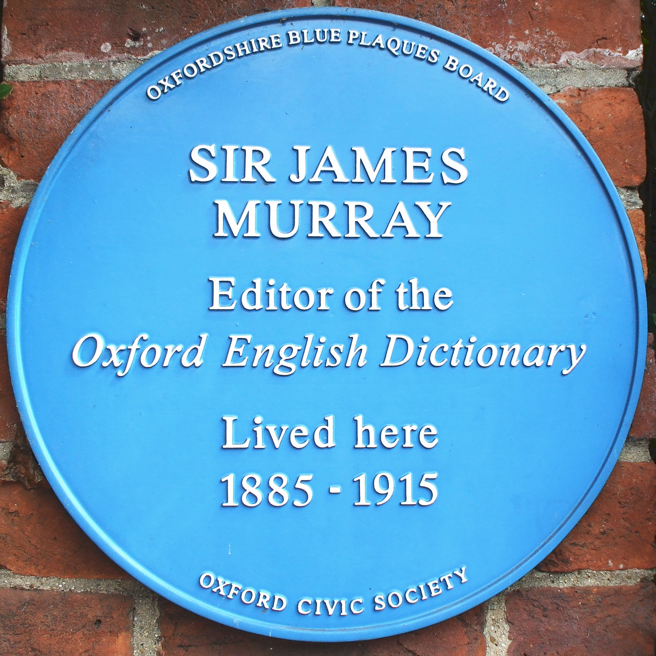 Sir James Murray, editor of the Oxford English Dictionary, lived here, 1885-1915 78 Banbury Road, Oxford OX2 6JT Plaque erected 21 October 2002 by the Oxfordshire Blue Plaques Board and Oxford Civic Society